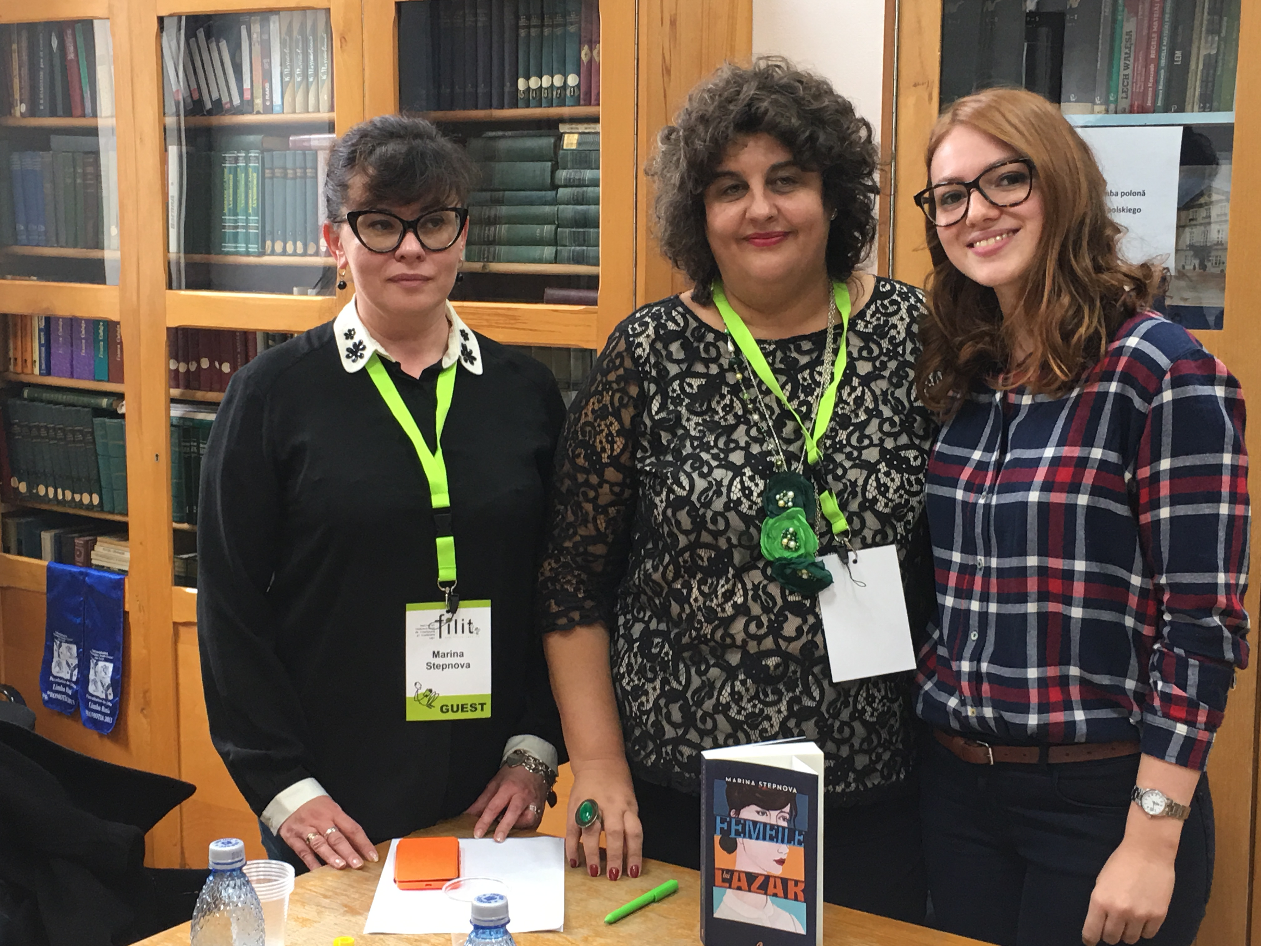 Iași, 2016, cu Marina Stepnova și Miruna Meiroșu